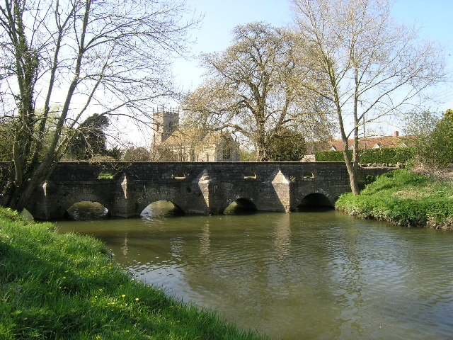 WEST LYDFORD, Somerset. The church of St Peter seen beyond the picturesque bridge over the River Brue